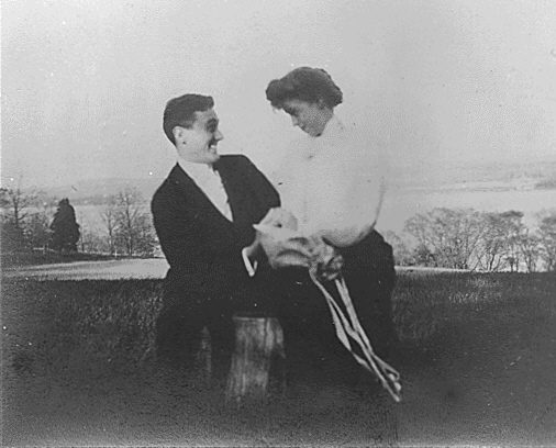 Franklin Delano Roosevelt and Eleanor Roosevelt in Newburgh (city), New York, 1905